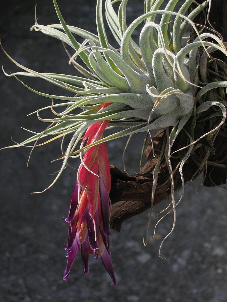 Tillandsia macdougallii in cultivation at the Botanical Garden of Heidelberg, Germany.